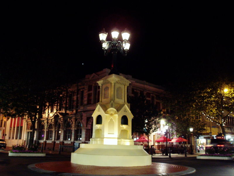 The Watt Fountain in Victoria Avenue, Wanganui (New Zealand) at night. The old Post Office building is in the background. Photo taken by Cameron McNeil. The fountain is listed with the New Zealand Historic Places Trust Register number: 1013.